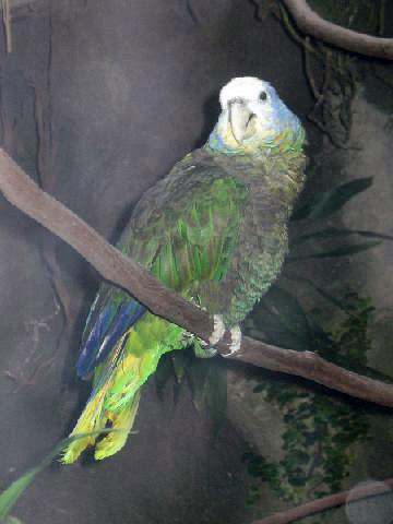 Description: St. Vincent Parrot - Source: own work - Location: Bronx Zoo, New York - Author: self, User:Stavenn